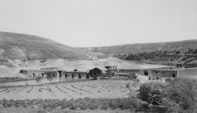 Photo of bridge over the Orontes River at Er Rastan and the road to Aleppo Other information Copyright expired